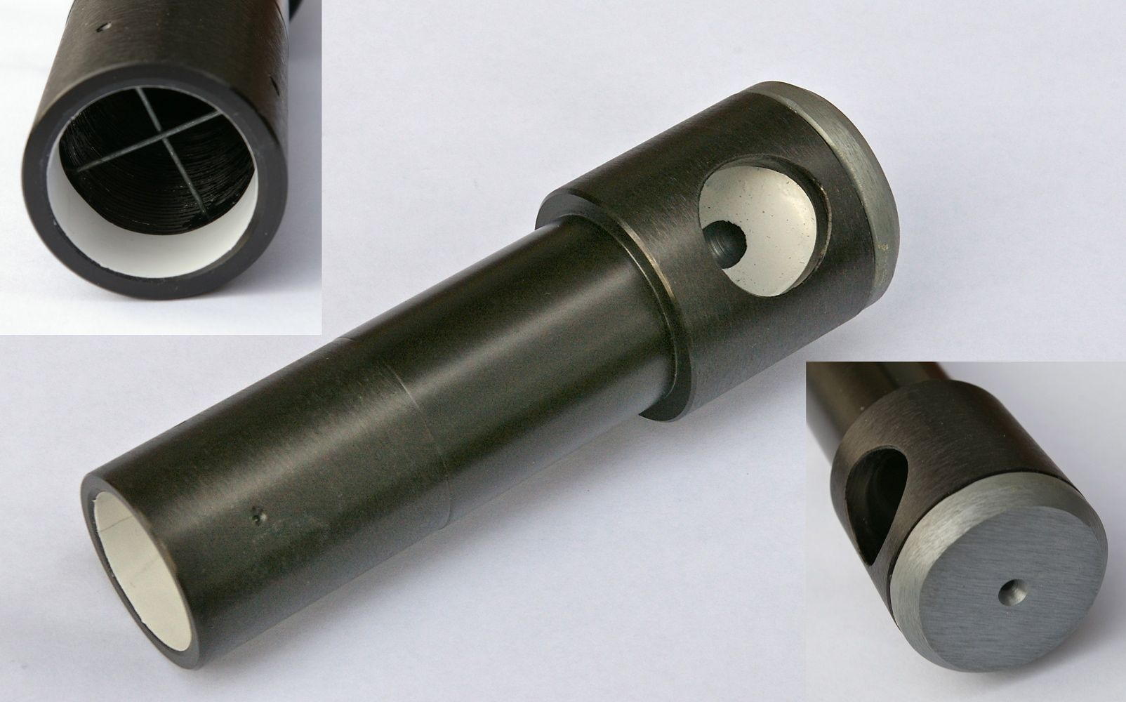 A handcrafted Cheshire collimation tool. The Cheshire eyepiece is combined here with a sight tube featuring crosshairs. Such a tool is used by amateur astronomers to align the optics of their telescopes.